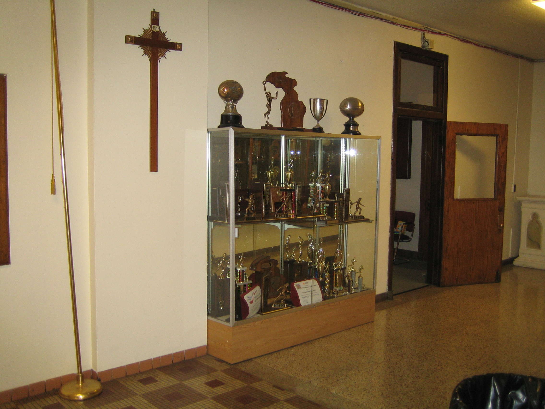 Outside of the original school office